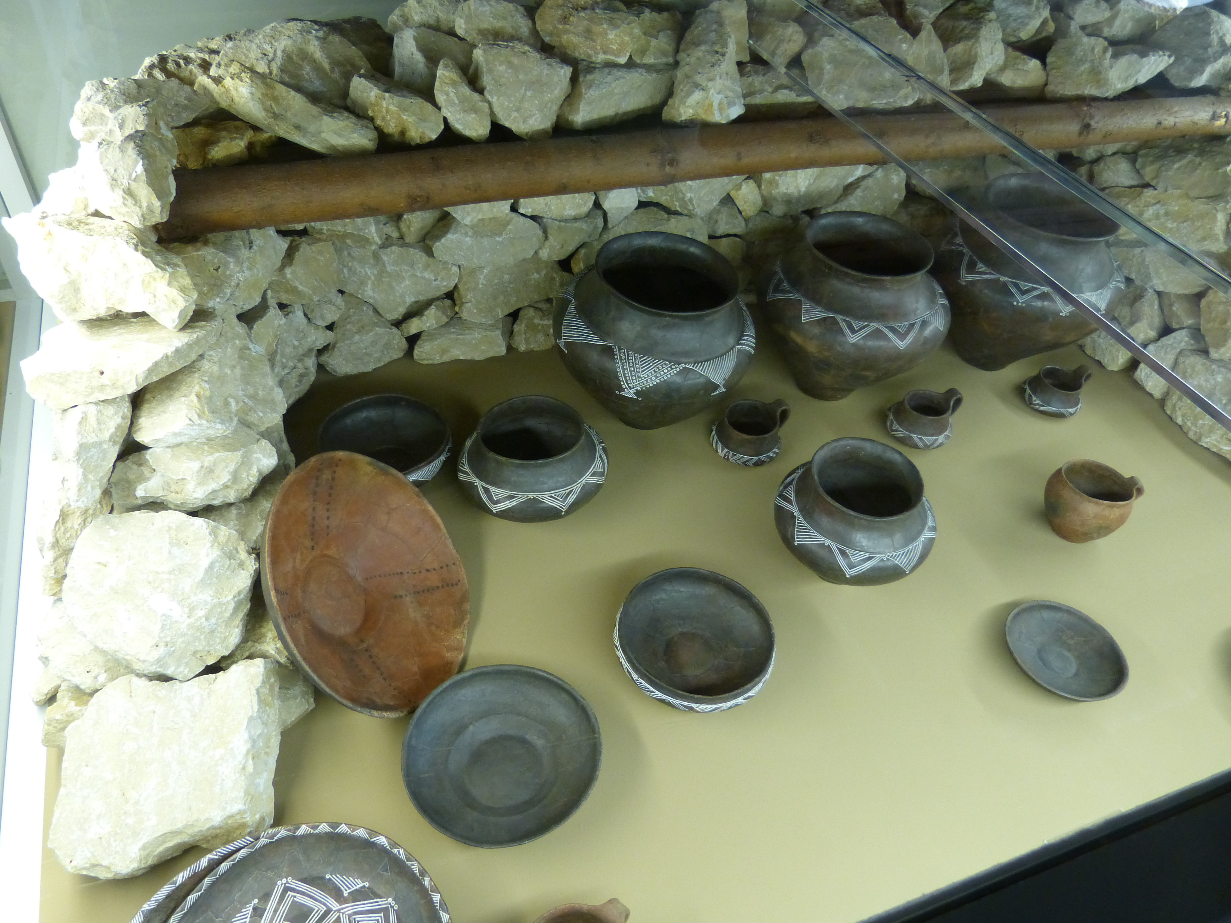 Kelheim ( Lower Bavaria ). Archaeological Museum: Pottery from tumulus III of the Hallstatt culture cemetery at Riedenburg-Haidhof.